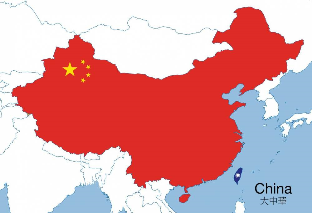 China and Taiwan outline map